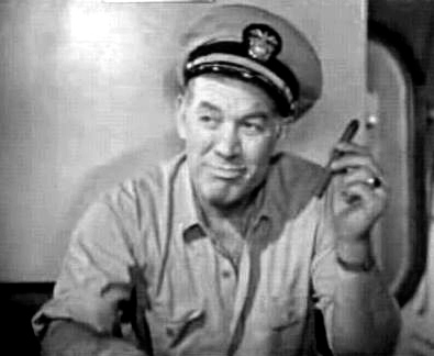 Screenshot of Ward Bond from the film Operation Pacific